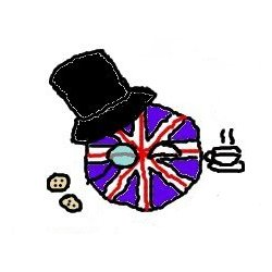 A user-generated representation of Britball, a countryball. Britball is represented wearing a tophat and sporting a monocle.